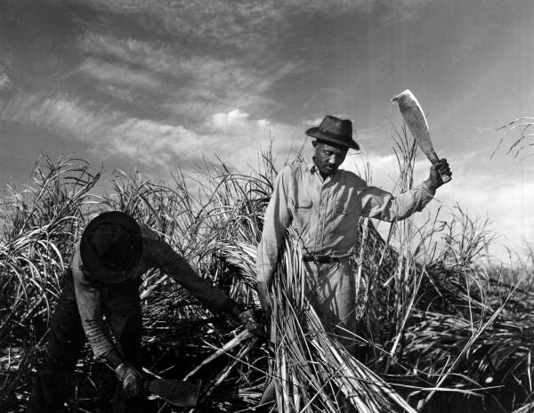 Persistent URL: Local call number: C008844 Title: Jamaican laborers cutting sugar cane - Clewiston Date: December 10, 1947 Physical descrip: 1 photoprint - b&w - 4 x 5 in. Series Title: Department of Commerce Collection Repository: State Library and Archives of Florida 500 S. Bronough St., Tallahassee, FL, 32399-0250 USA, Contact: 850.245.6700